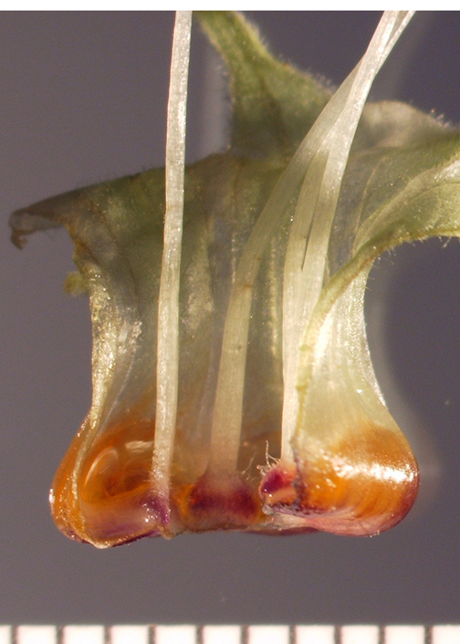 Cut through a flower of Jaltomata sanchez-vegae, showing orange nectar. Collection Mione, Leiva G. & Yacher 647. Units on ruler in upper left are mm. Collected in Peru, Province Santiago de Chuco at about 3000 m elevation.